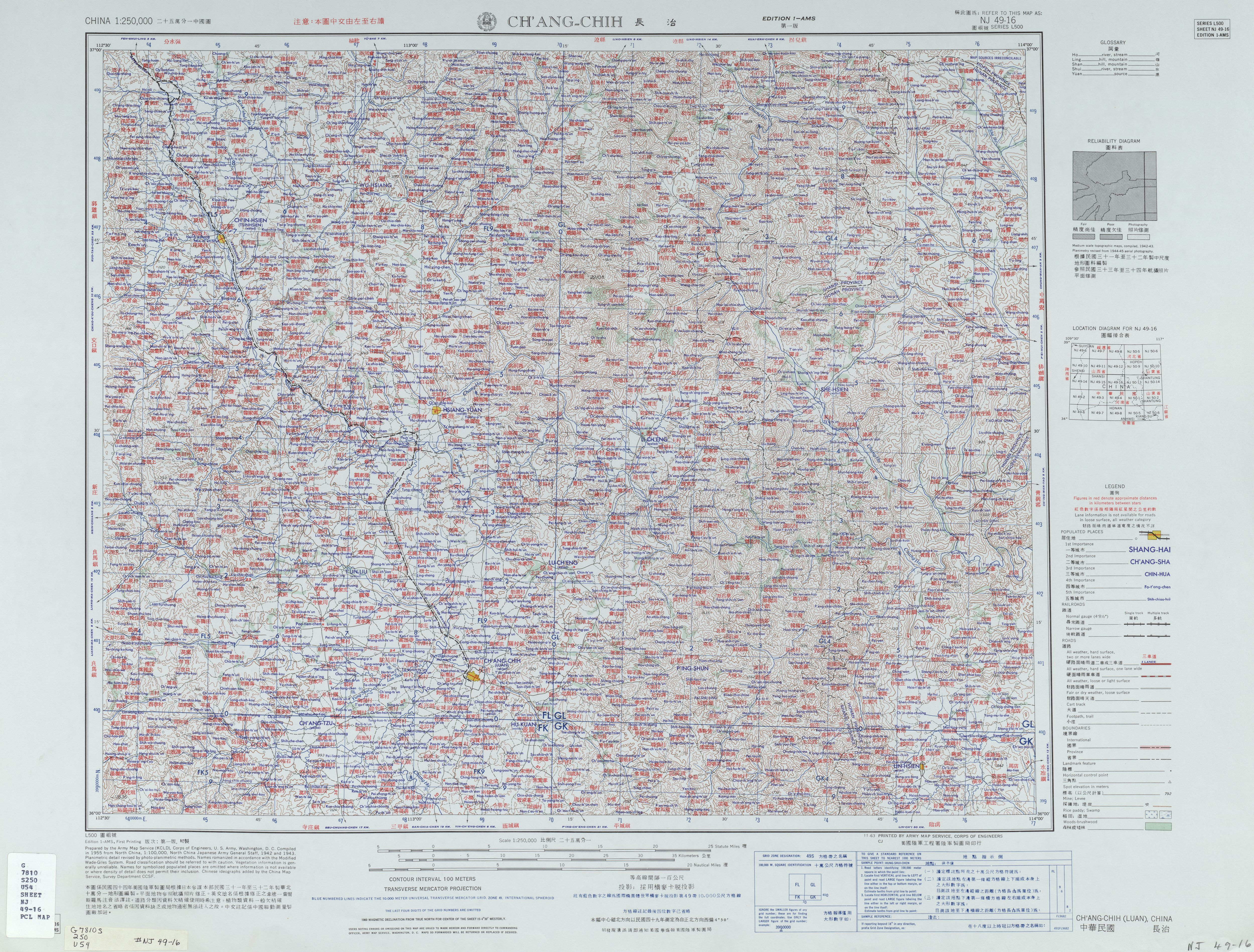 China AMS Topographic Maps